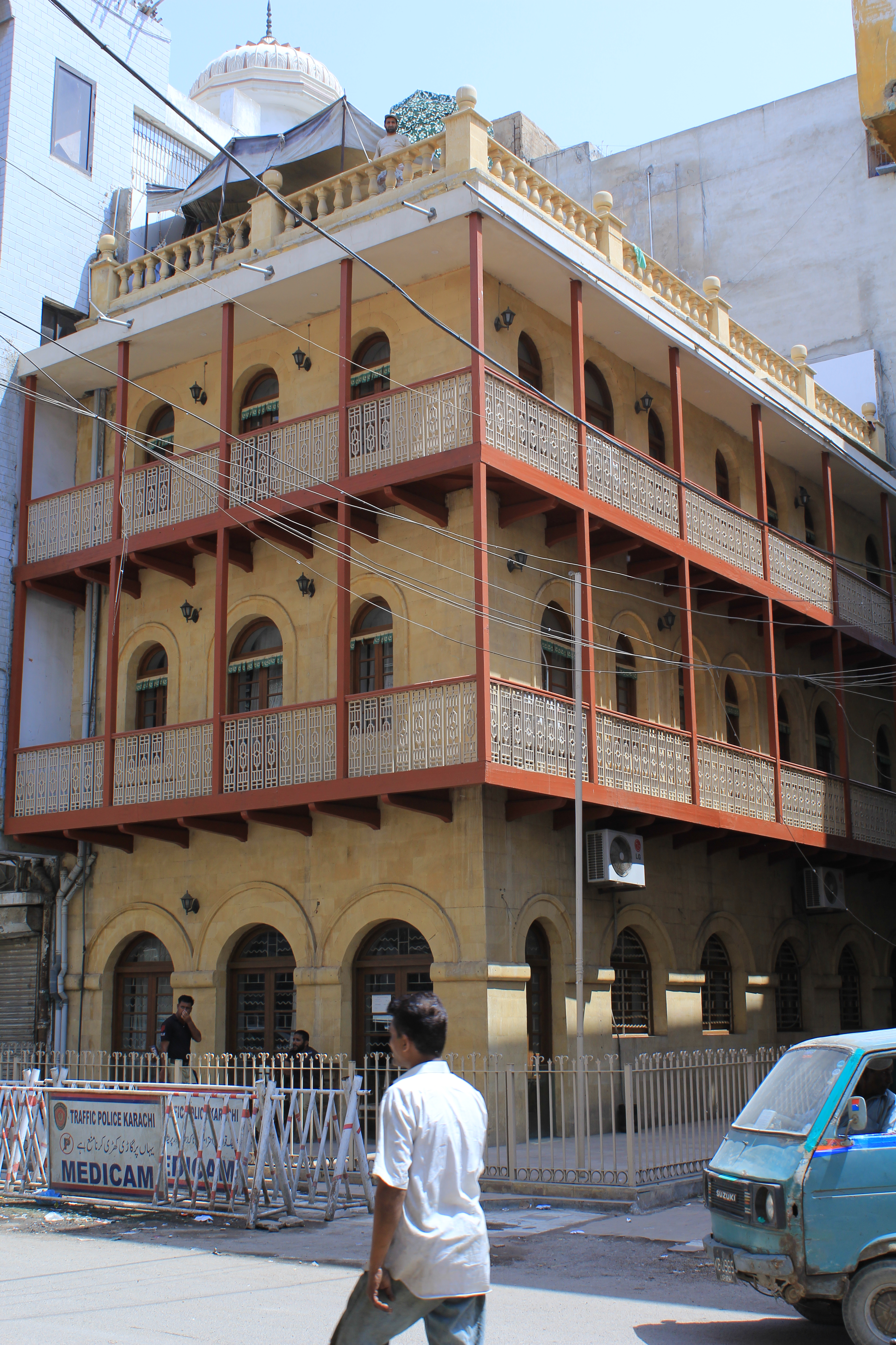 Wazir Mansion, birthplace of Quaid-e-Azam Muhammad Ali Jinnah This is a photo of a monument in Pakistan identified as the SD-31